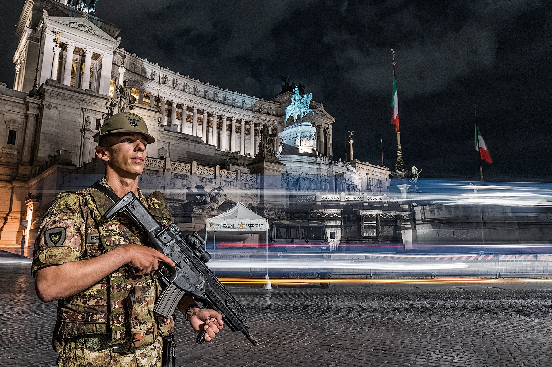 Italian Army, a soldier from the 8th Alpini Regiment guarding the Altare della Patria in Rome